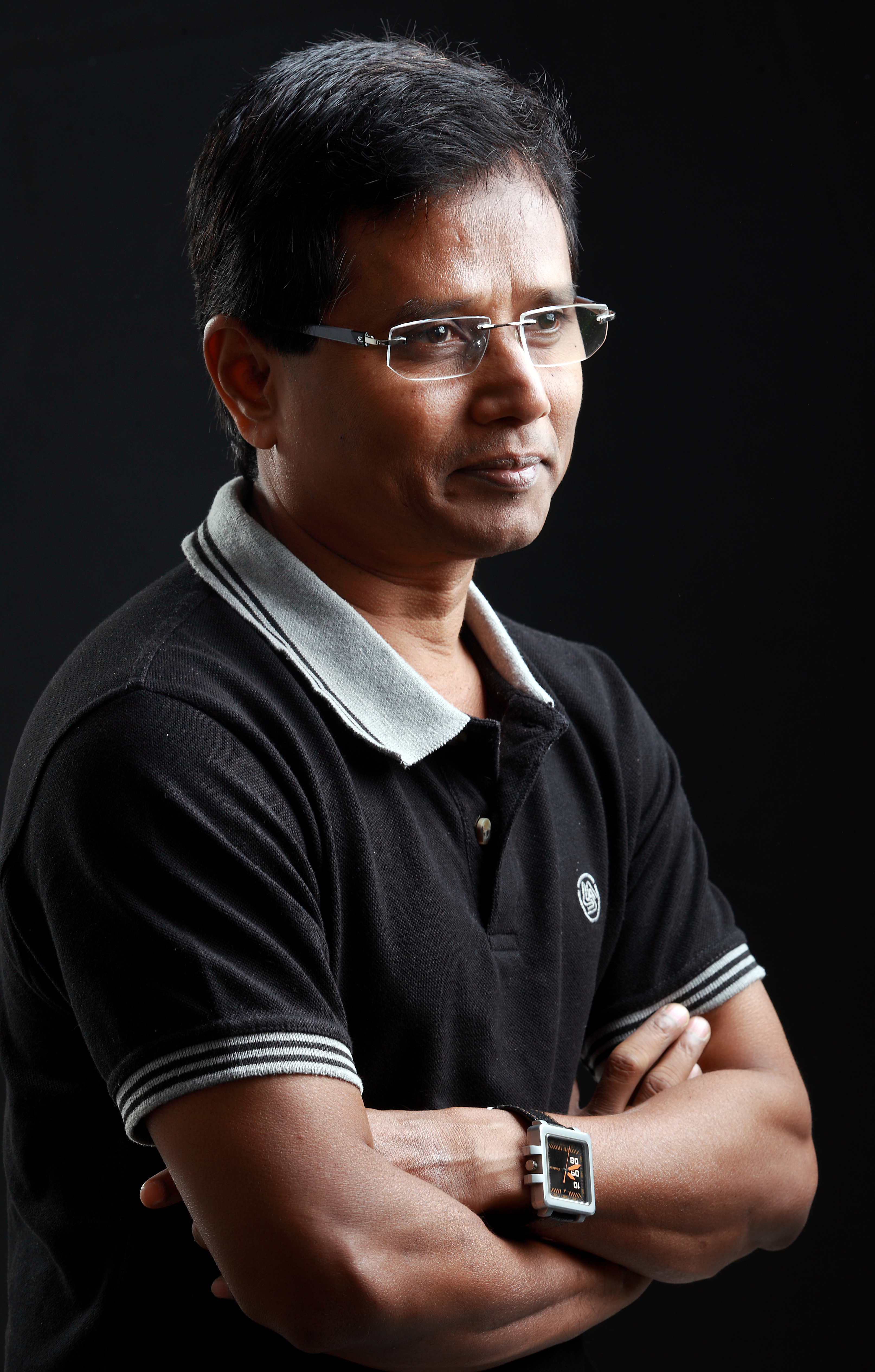 Sasidharan director